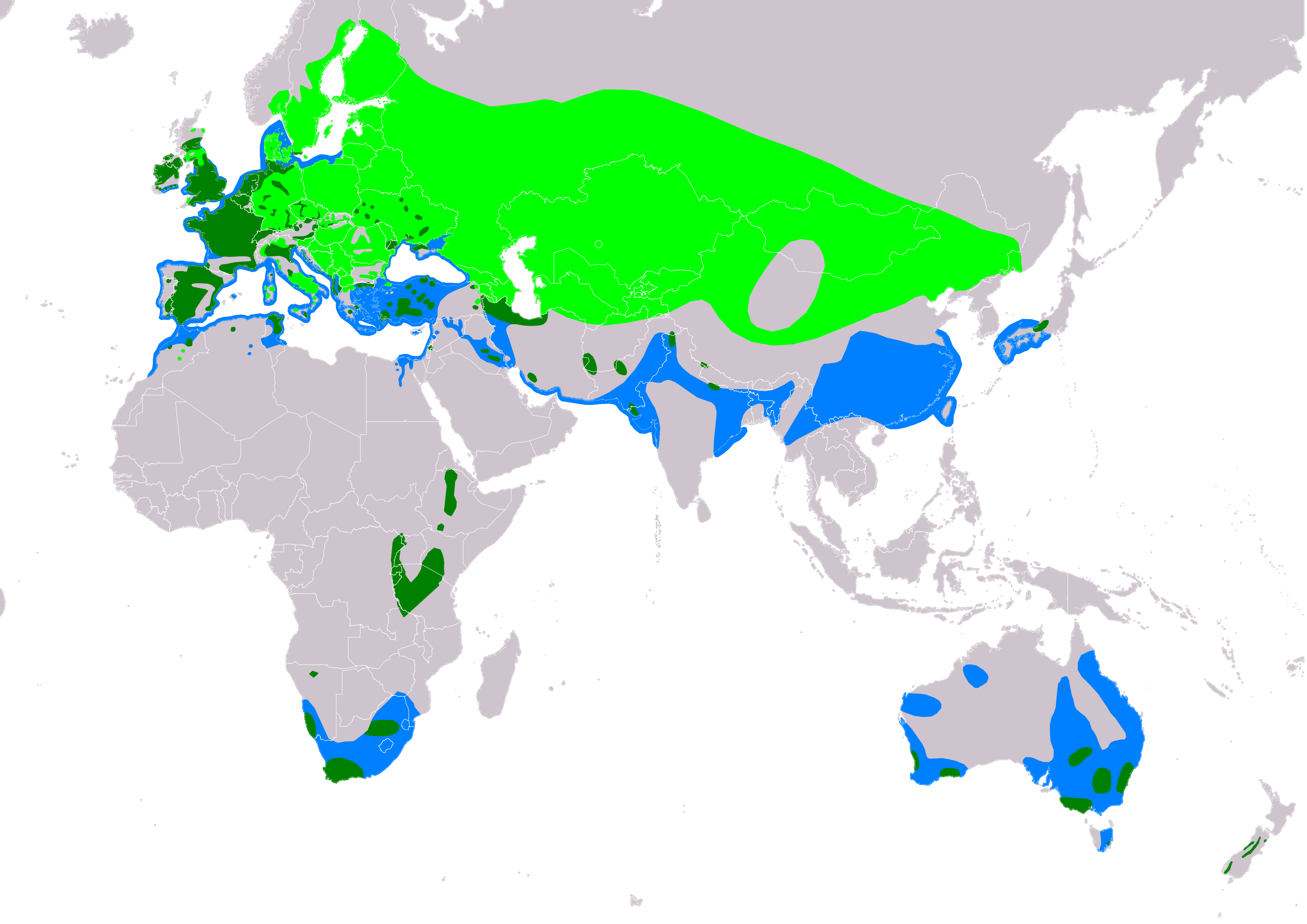 Distribution map of great crested grebe (Podiceps cristatus) according to IUCN version 2019.2 ; key: Legend: Extant, breeding (#00FF00), Extant, resident (#008000), Extant, non-breeding (#007FFF)